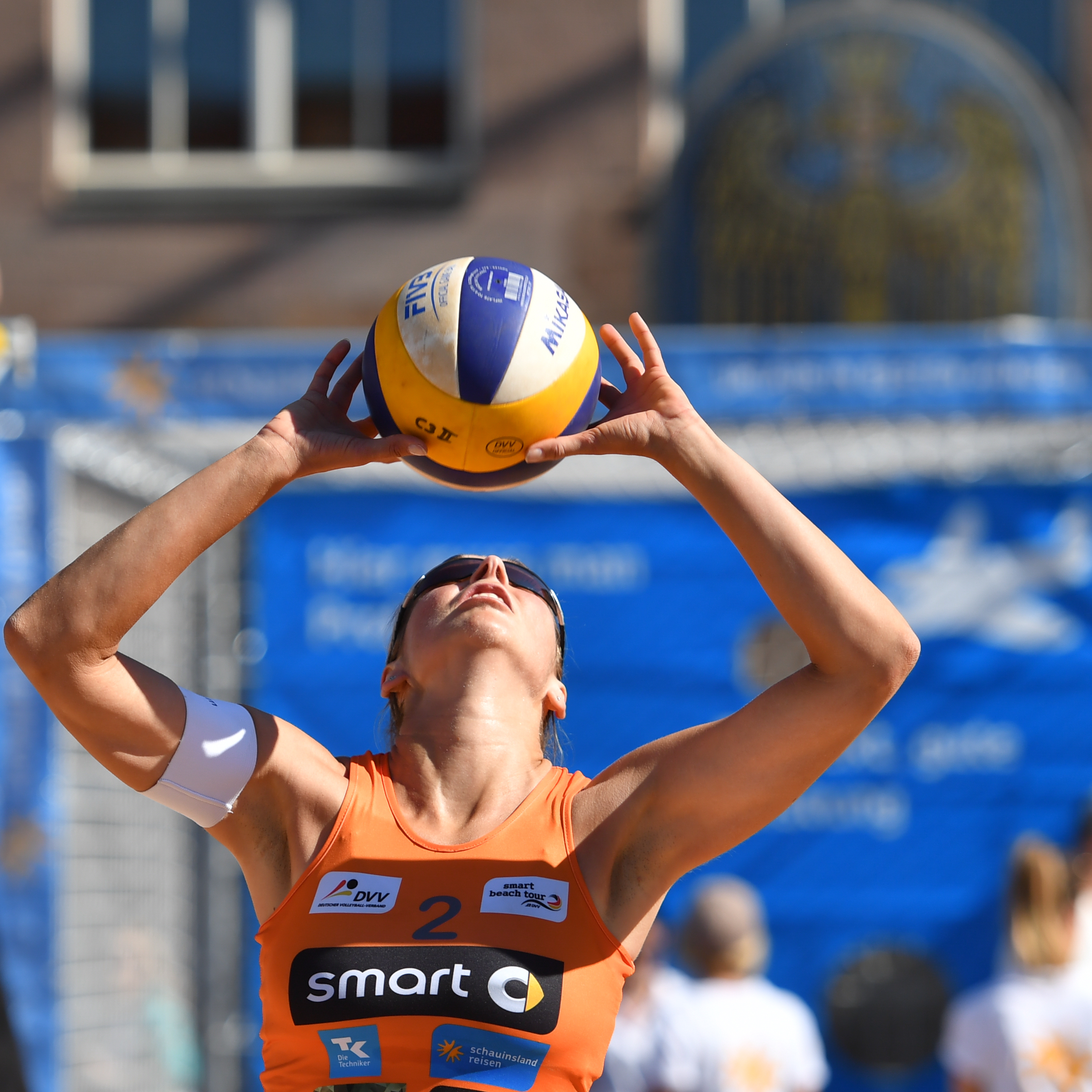 27/5/2017, Nuremberg, Germany, Sports, beach volleyball, smart beach cup Nuernberg.